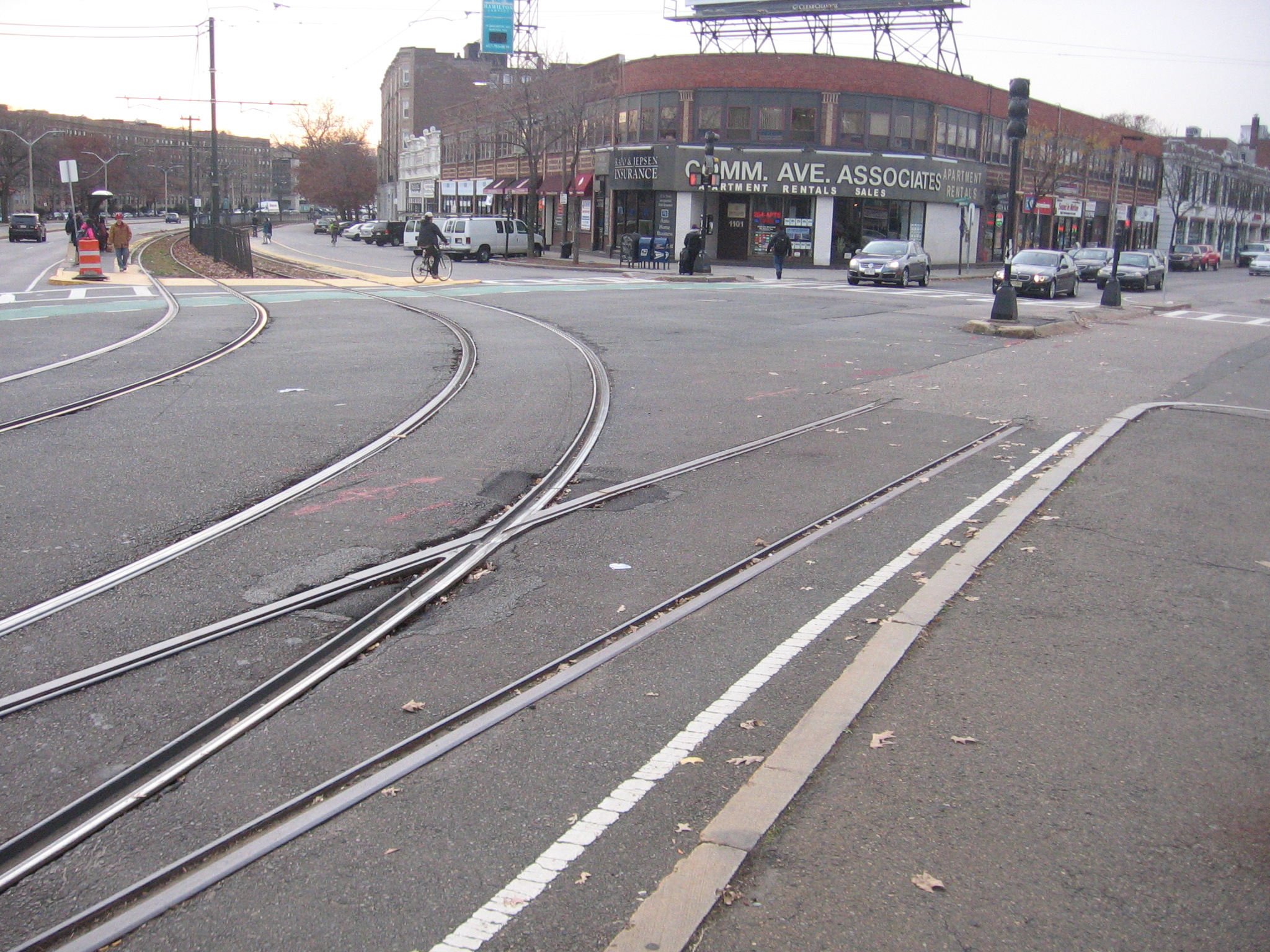 Switch connecting the former outbound track of the Green Line A Branch (service ended 1969, abandoned 1994) to the B Branch. This section of track extended a few hundred feet until the mid 2000s as a siding for disabled cars. The switch was removed in 2014.